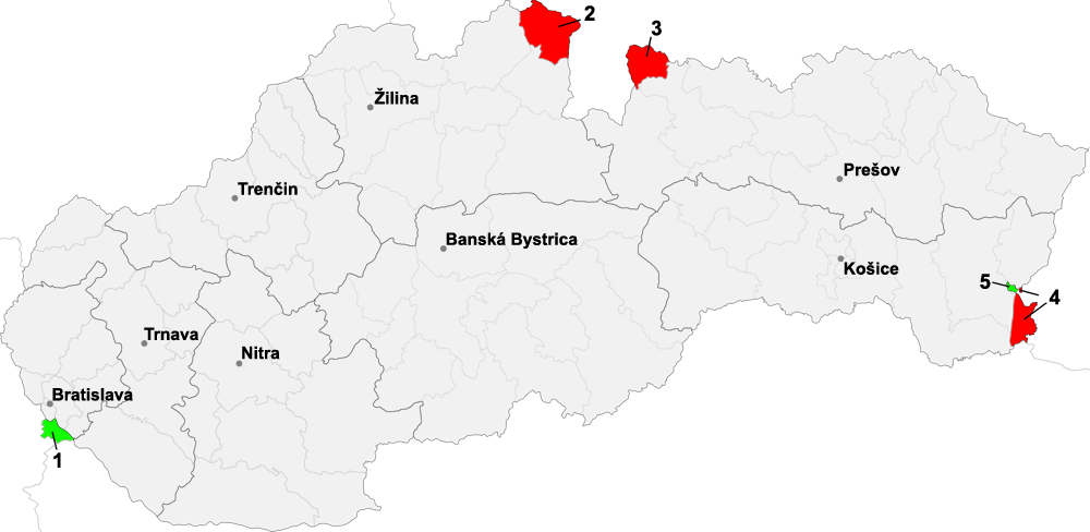 Map of Slovakia with border-changes until 1947 selfprovided on April 14th, 2006 1 - Bratislava bridgehead, 1947 from Hungary (confer Bratislavaer Brückenkopf for more information) 2 - Jabłonka territories, from 1924-1939 and after 1945 to Poland 3 - Nowa Biała/Nová Bela territories, from 1924-1939 and after 1945 to Poland 4 - Chop territories, after 1945 to Sovietunion/Ukraine 5 - Lekárovce territory, after 1945 from former Carpathian Ruthenia